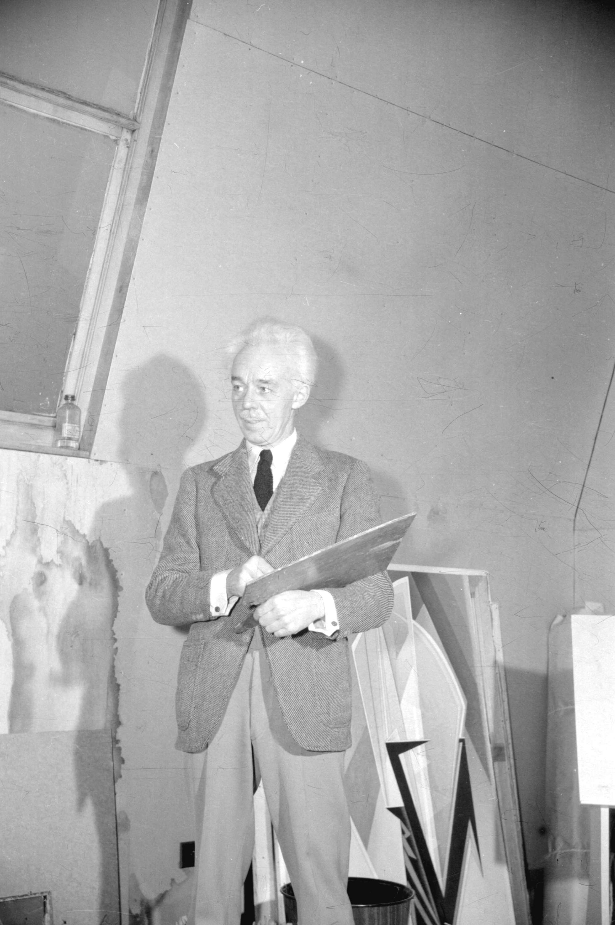 City of Vancouver Archives 1184-1128 - [Artist in his studio]